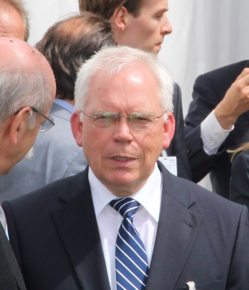 Ulrich Hackenberg, Member of the Executive Board of Volkswagen